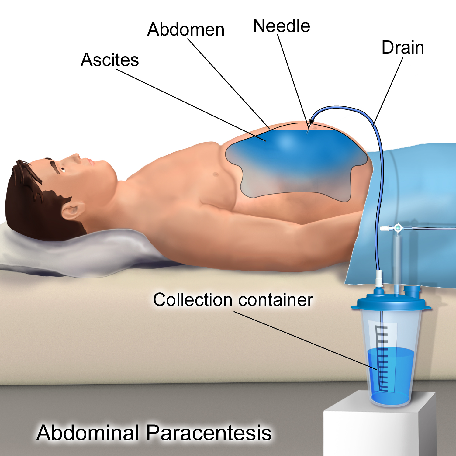 Abdominal Paracentesis. This image was donated by Blausen Medical. Please visit our website to see more medical illustrations and animations.